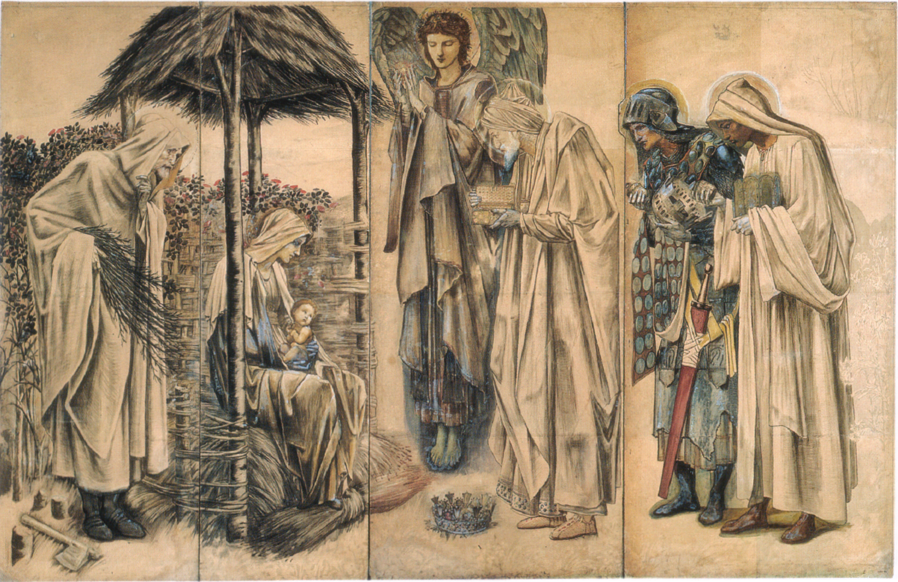 Cartoon for the Adoration of the Magi tapestry by Morris & Co., after Edward Burne-Jones with detail added by Burne=Jones, photographic paper with watercolour and bodycolour, 240 x 375.9 cm, Victoria & Albert Museum E.5015-1919